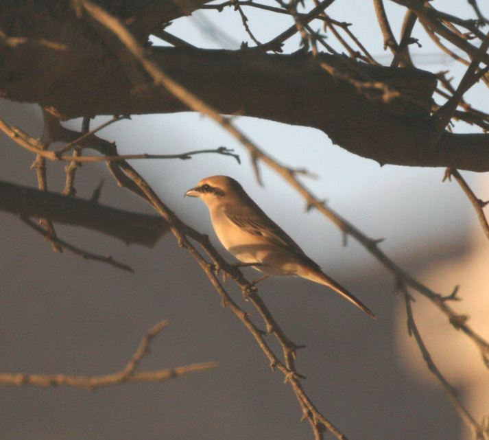 Isabelline Shrike, race Turkestan Shrike